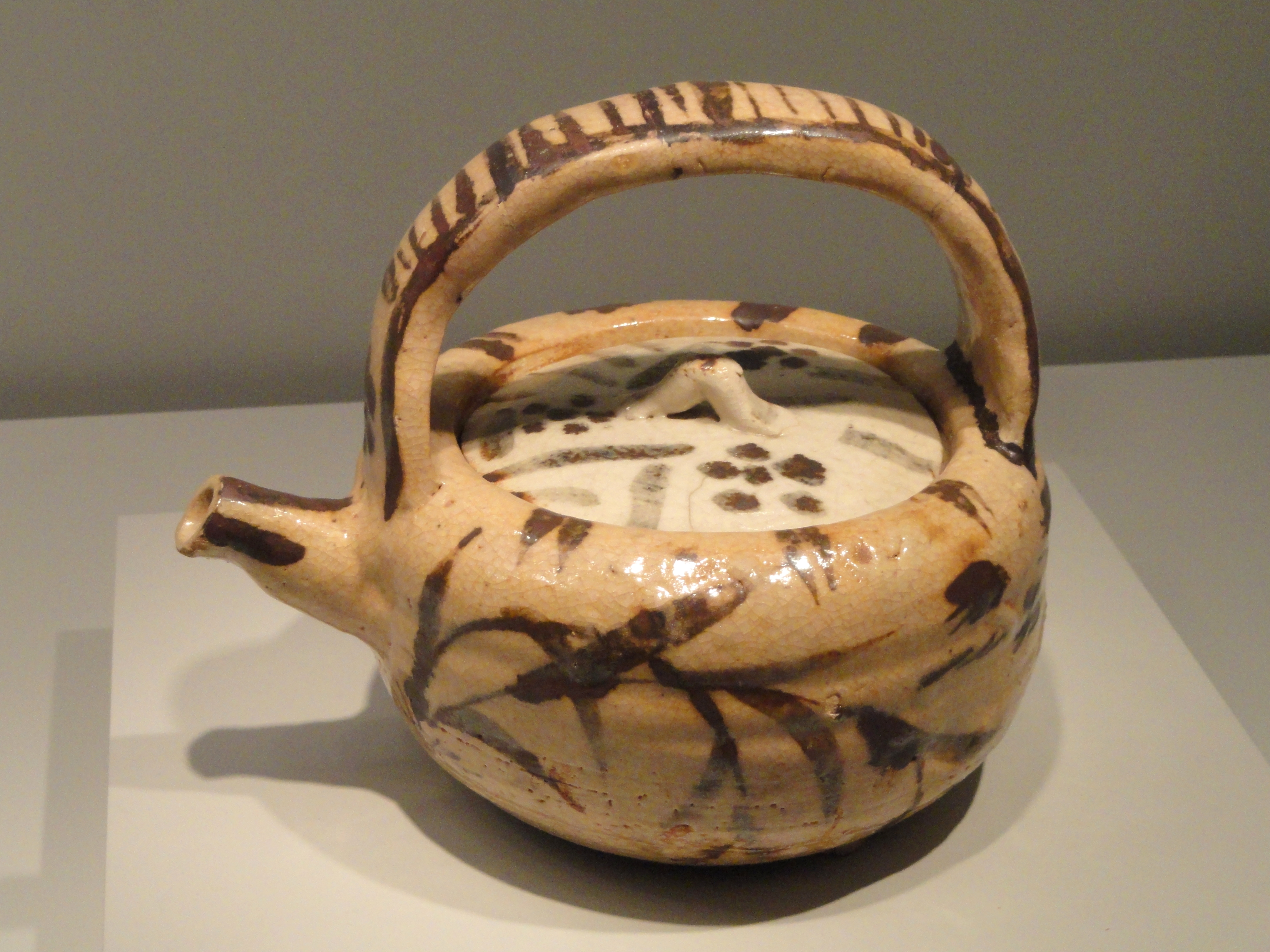 Exhibit in the Art Institute of Chicago, Chicago, Illinois, USA. This artwork is in the public domain because the artist died more than 70 years ago.